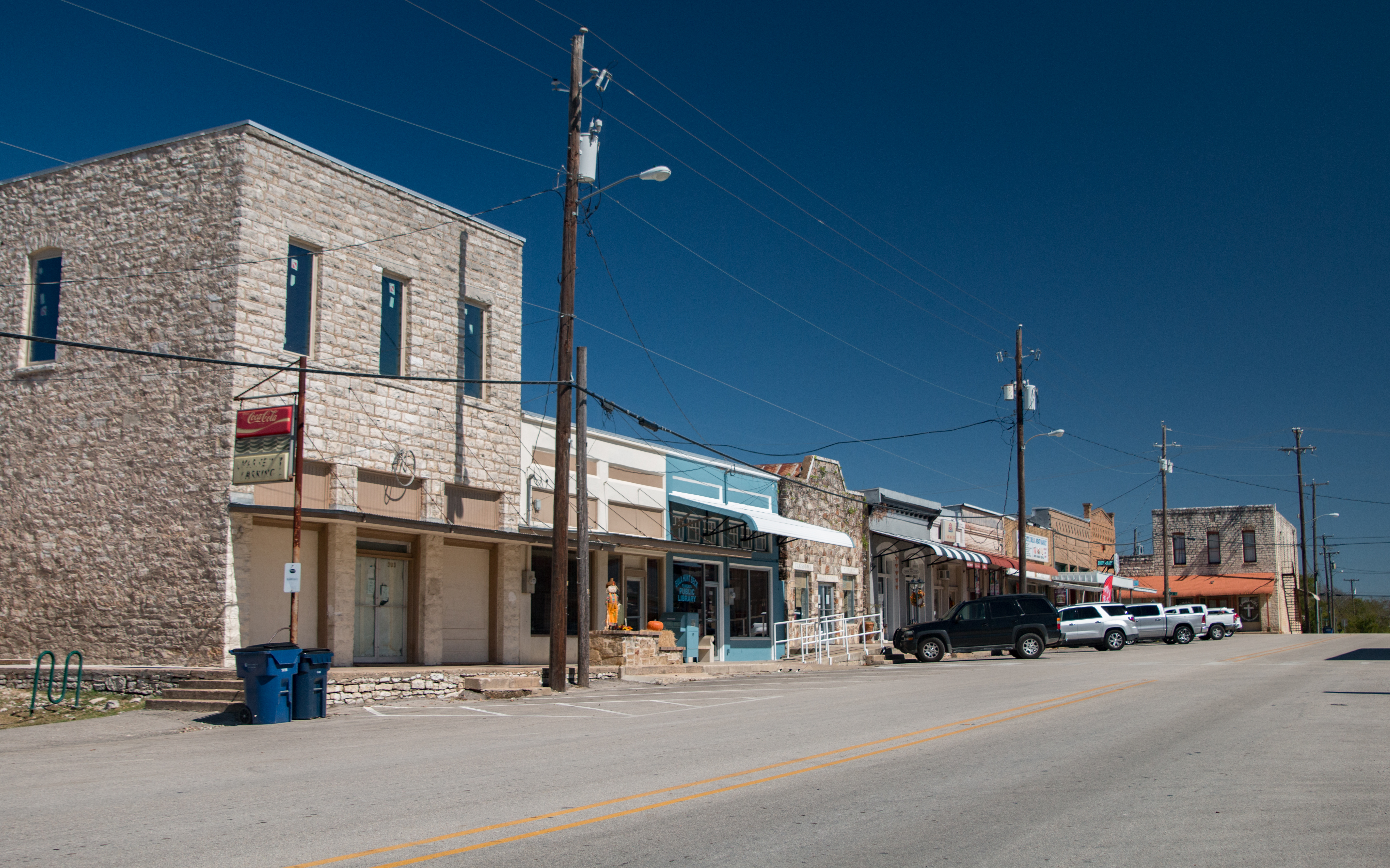 The town of Florence, Texas